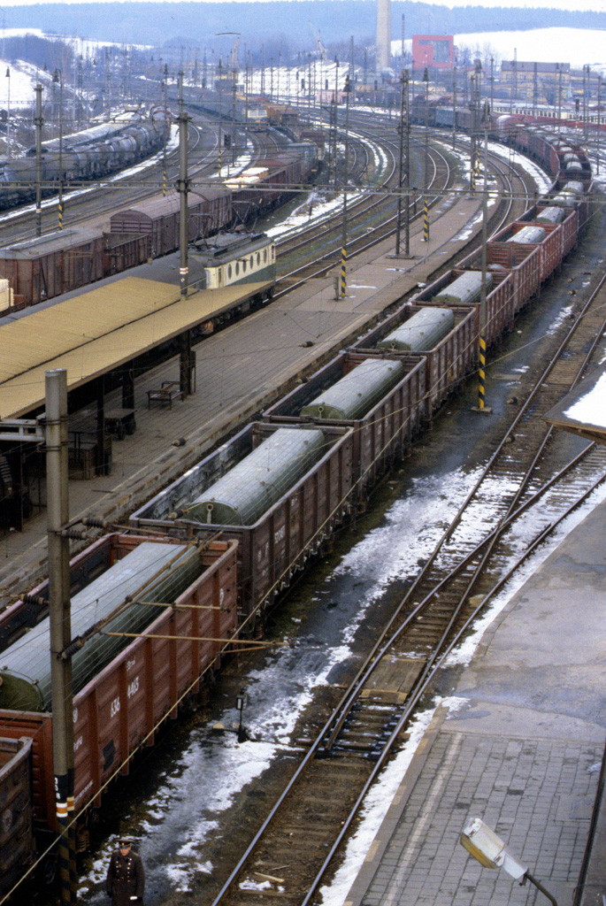 “A Soviet missile train”. A train with OTR-22 Temp-S (SS-12 Scaleboard) medium-range ballistic missiles ready to leave for the Soviet Union from Czechoslovakia's Hranice na Morave railroad station. The Soviet Government decided to remove the missiles pending the enactment of the 1987 Soviet-US Intermediate-Range Nuclear Forces Treaty (INF).